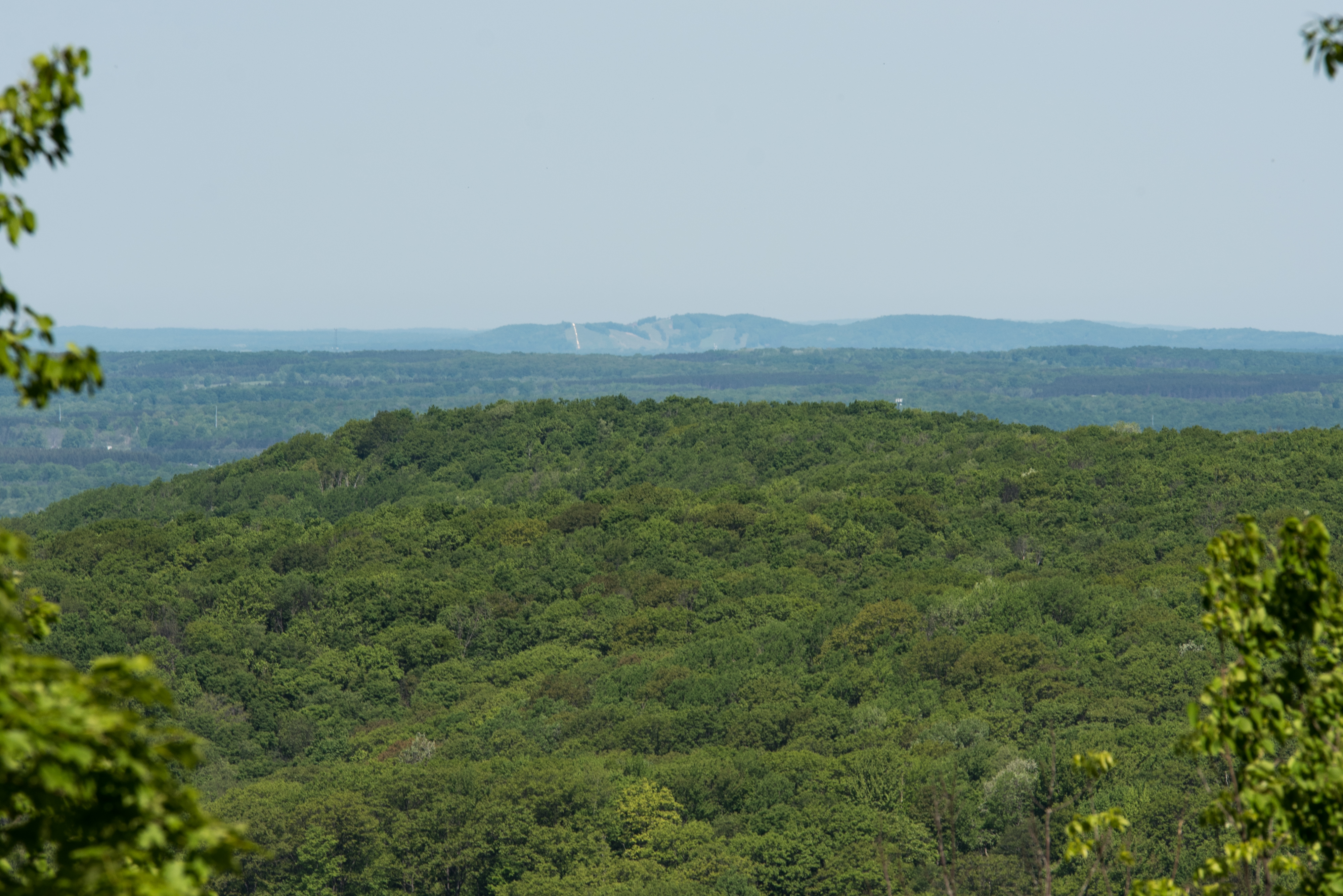 Facing Northwest towards Crystal Mountain